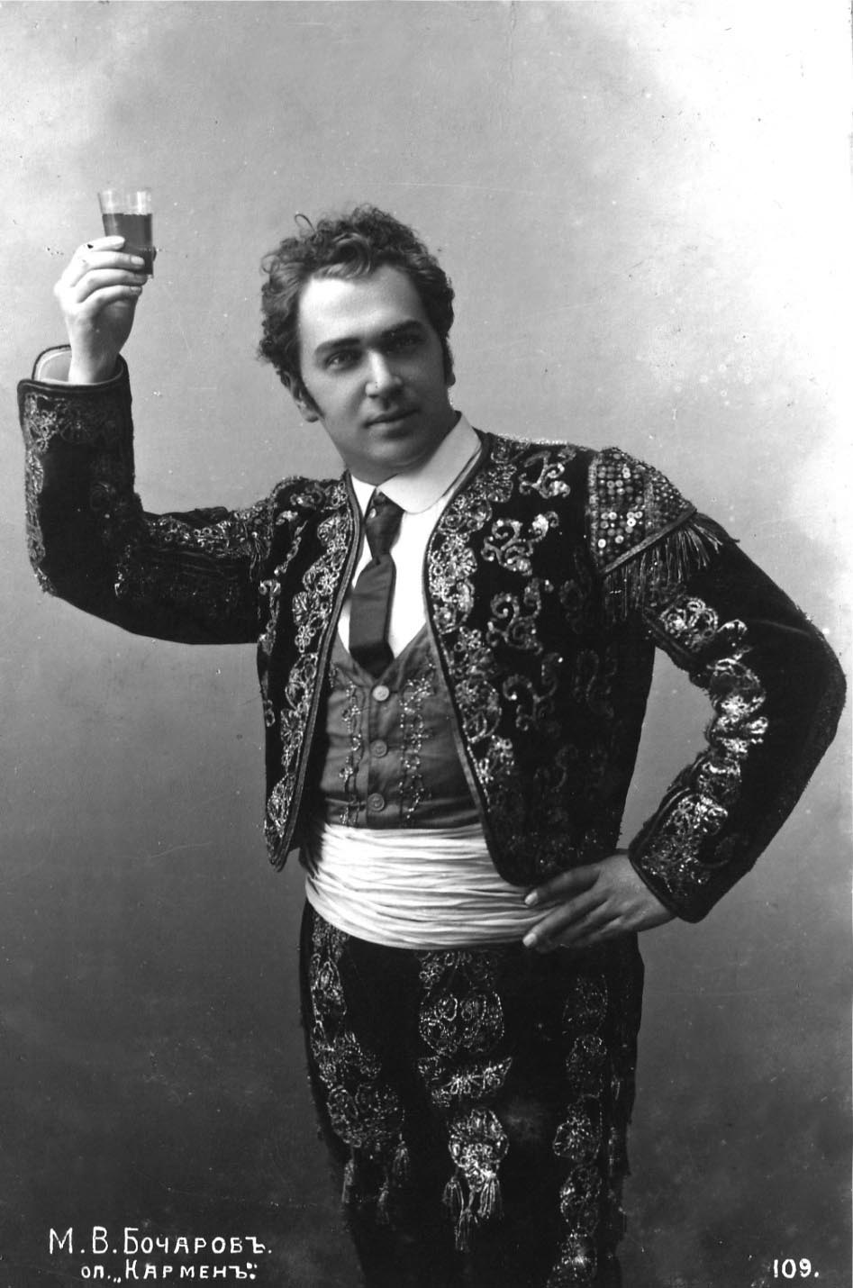 Portrait of Russian opera singer Mikhail Bocharov (1872-1936) as Escamillo in "Carmen" by Bizet